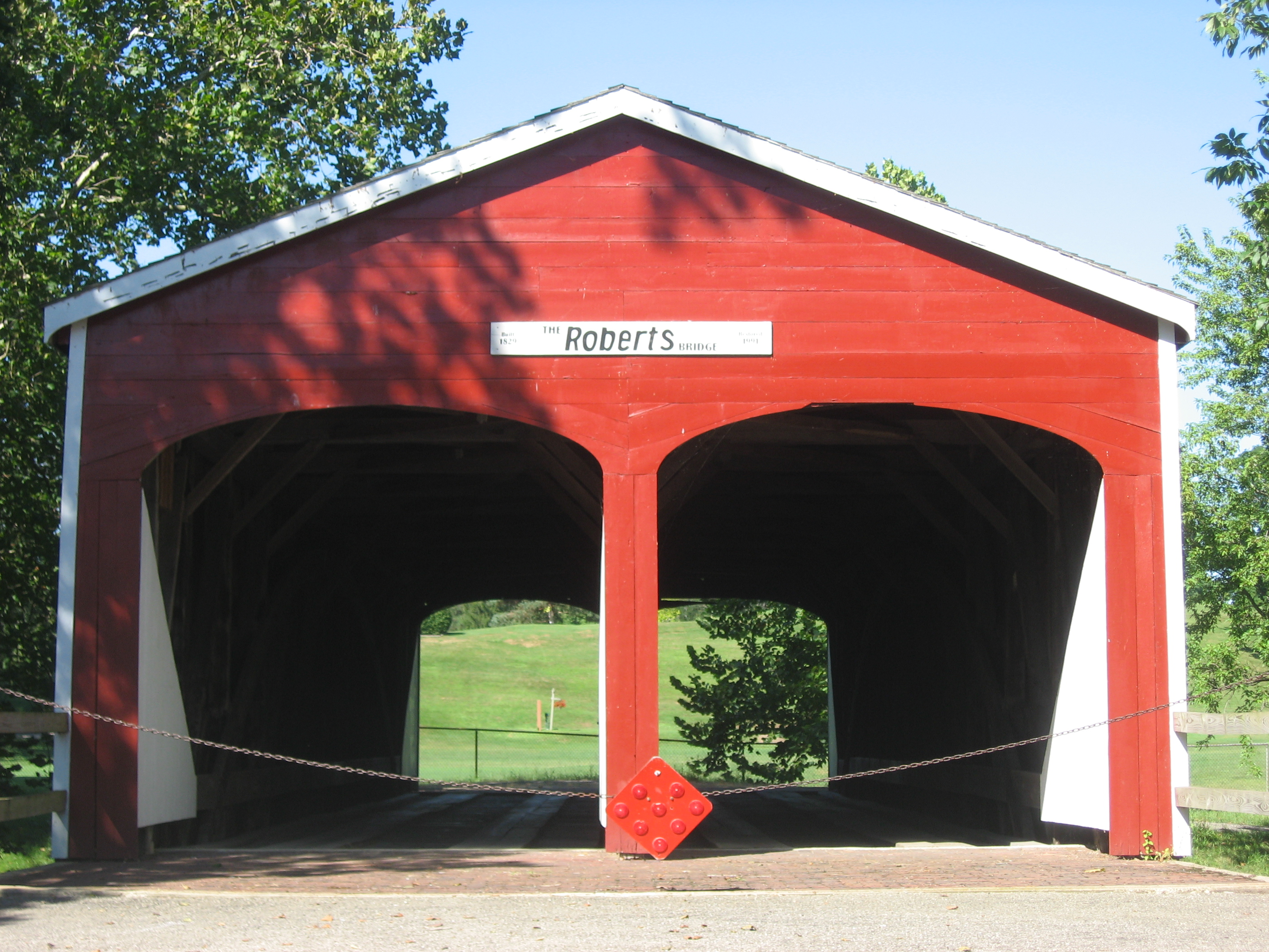 Eastern end of the Roberts Covered Bridge, which spans Seven Mile Creek off Beech Street in Eaton, Ohio, United States. Built in 1829, it is Ohio's last remaining double-barrelled covered bridge; in 1991, it was moved from its original location, 3 miles south of Eaton, to its present site. The bridge is listed on the National Register of Historic Places.